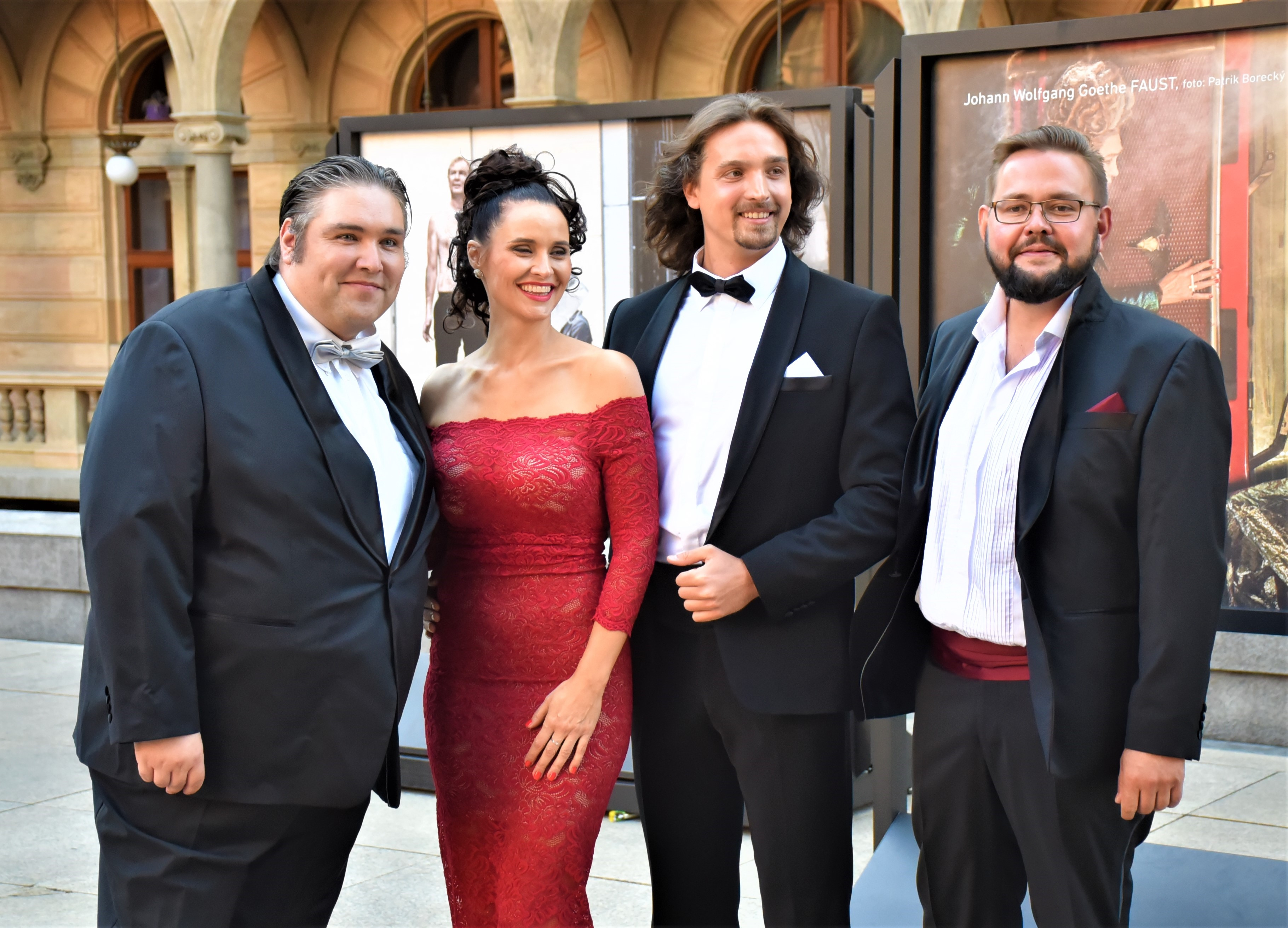 Il Bohemo, opera singing group (Zdeněk Plech, Barbora Řeháčková, Igor Loškár and Pavel Švingr)